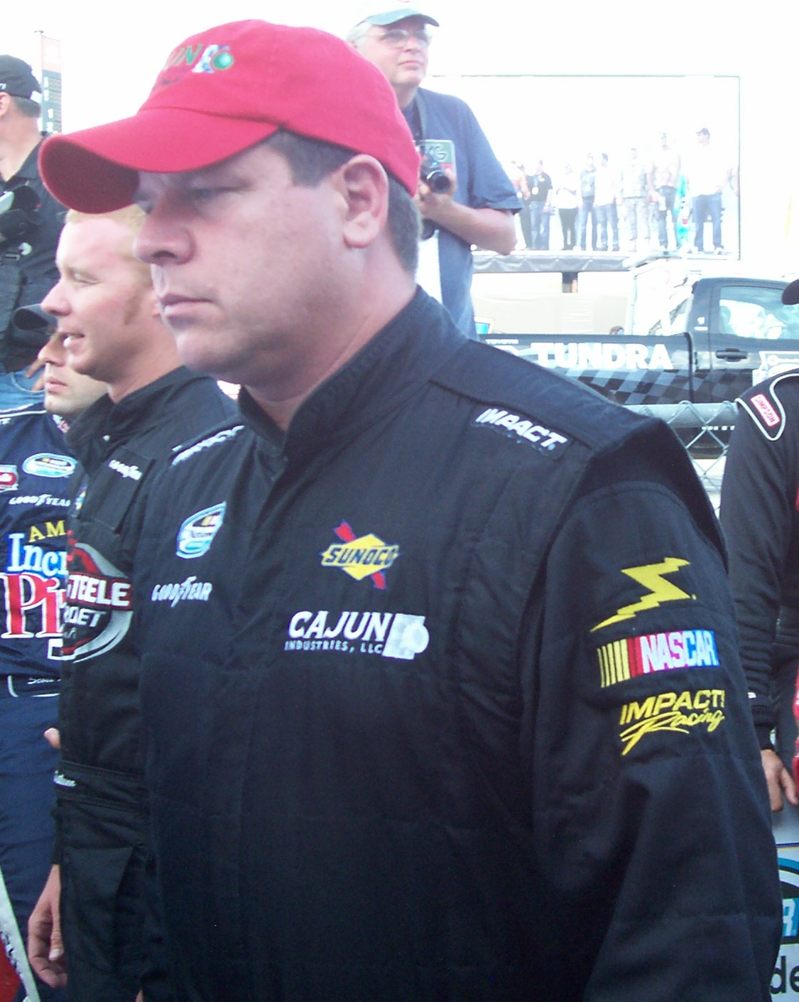 NASCAR Nationwide Series driver Terry Cook at the 2009 race at the Milwaukee Mile.